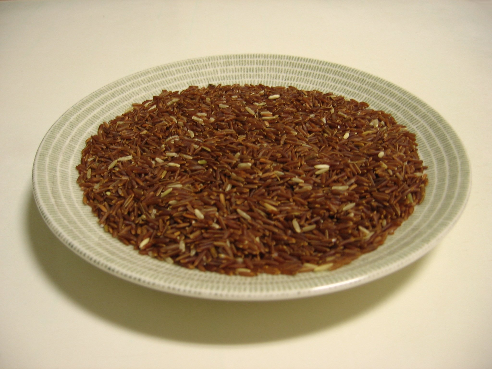 Red rice on Arabia 24H Avec plate.